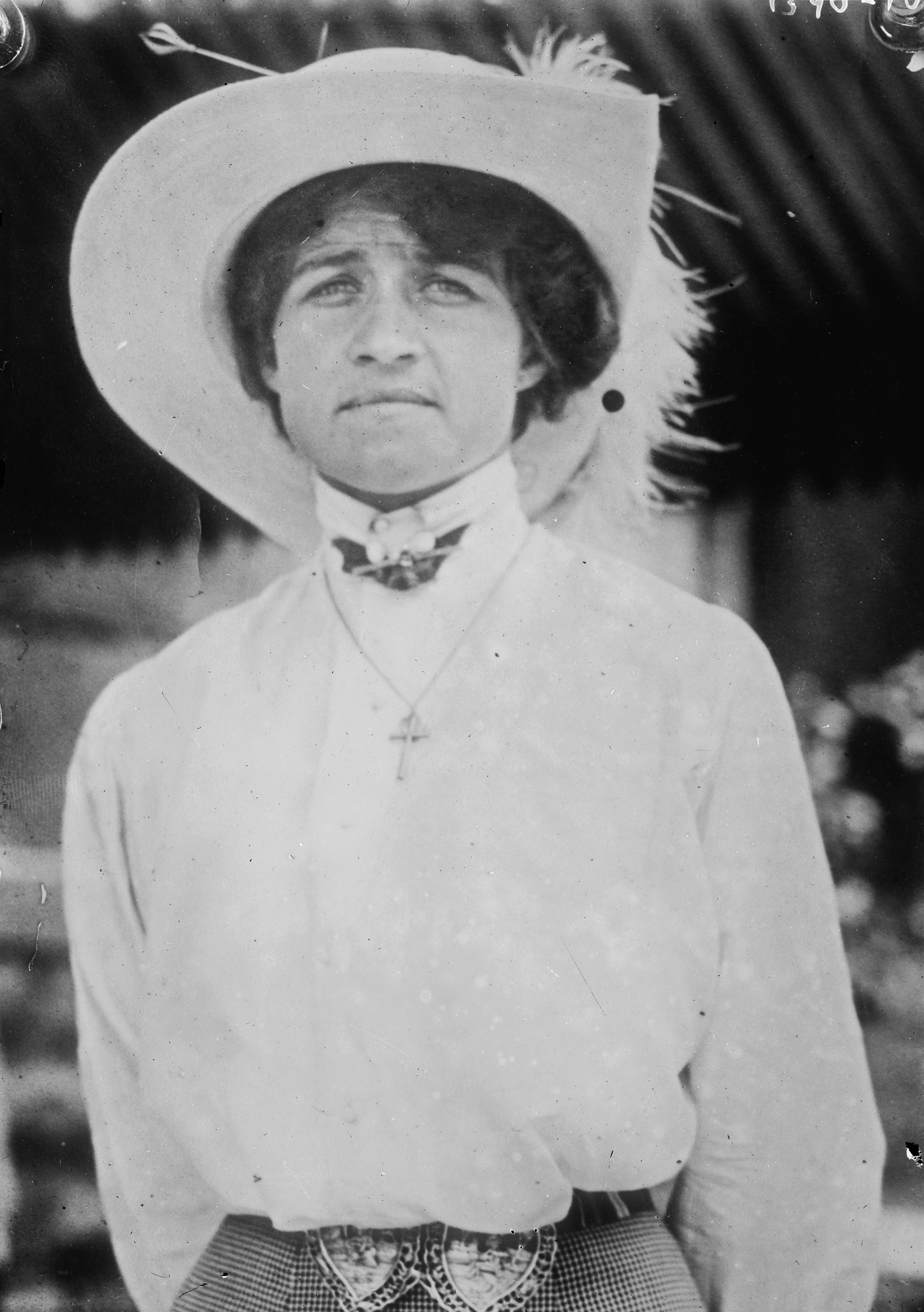 May Sutton, a tennis champion, the first American to win the singles title at the Wimbledon Championships